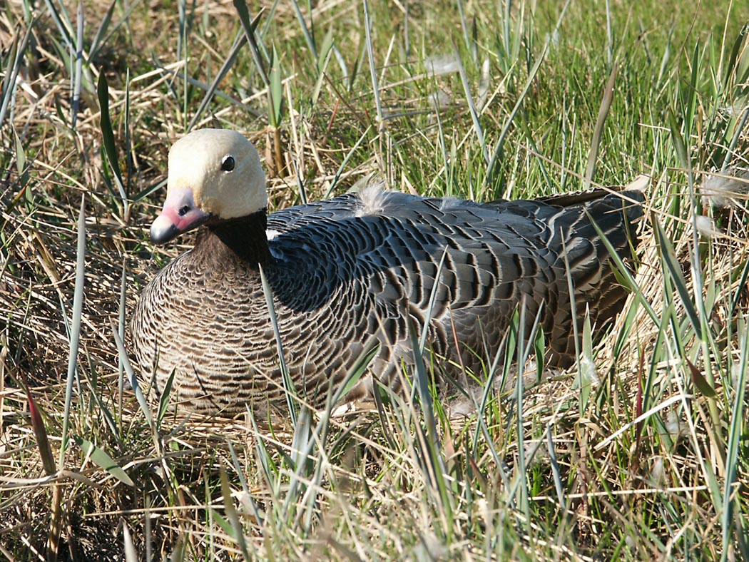 Emperor Goose (Anser canagicus) on nest